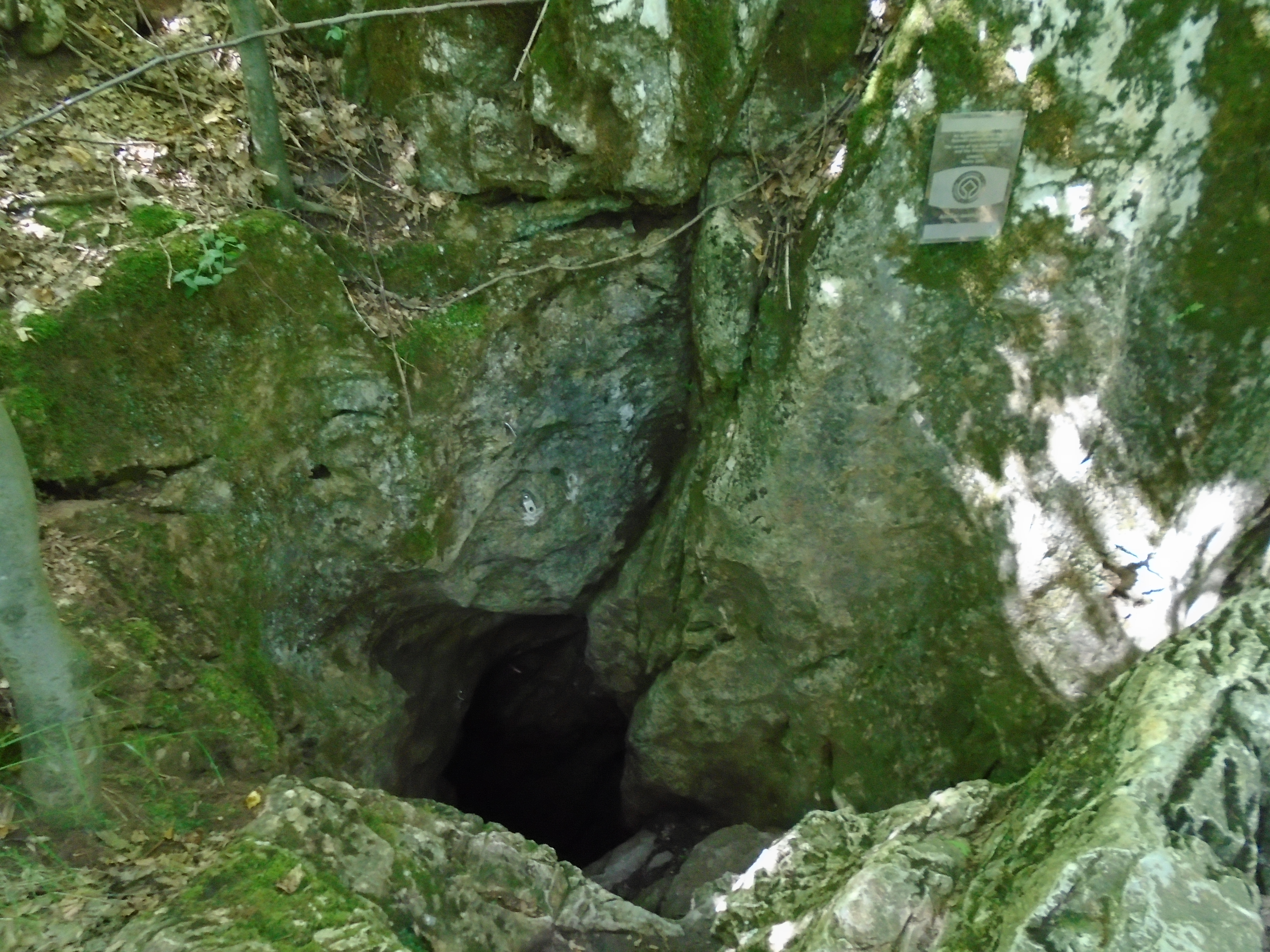 Entrance of Almási Pothole.